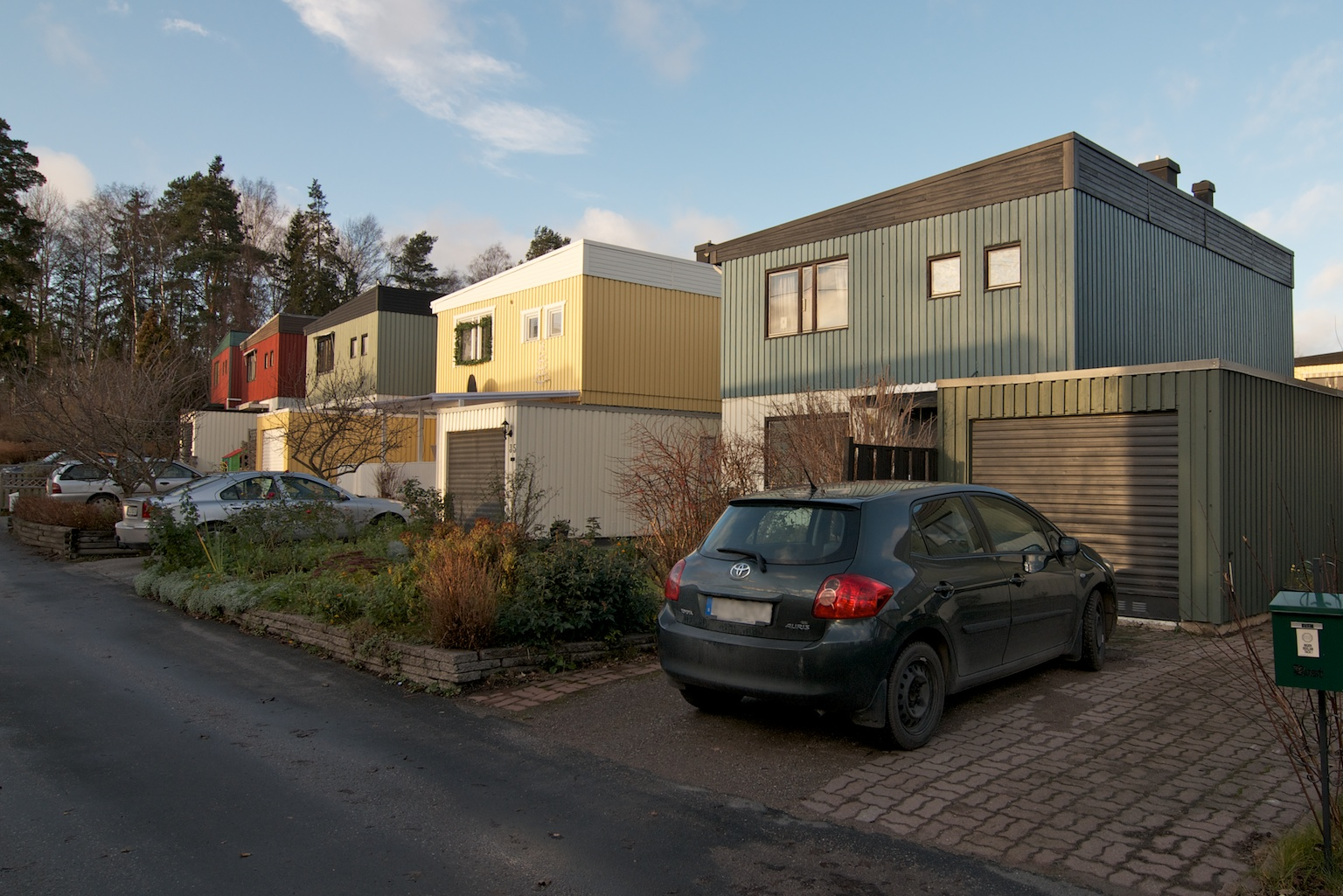 Townhouses in Backlura, Stockholm, Sweden